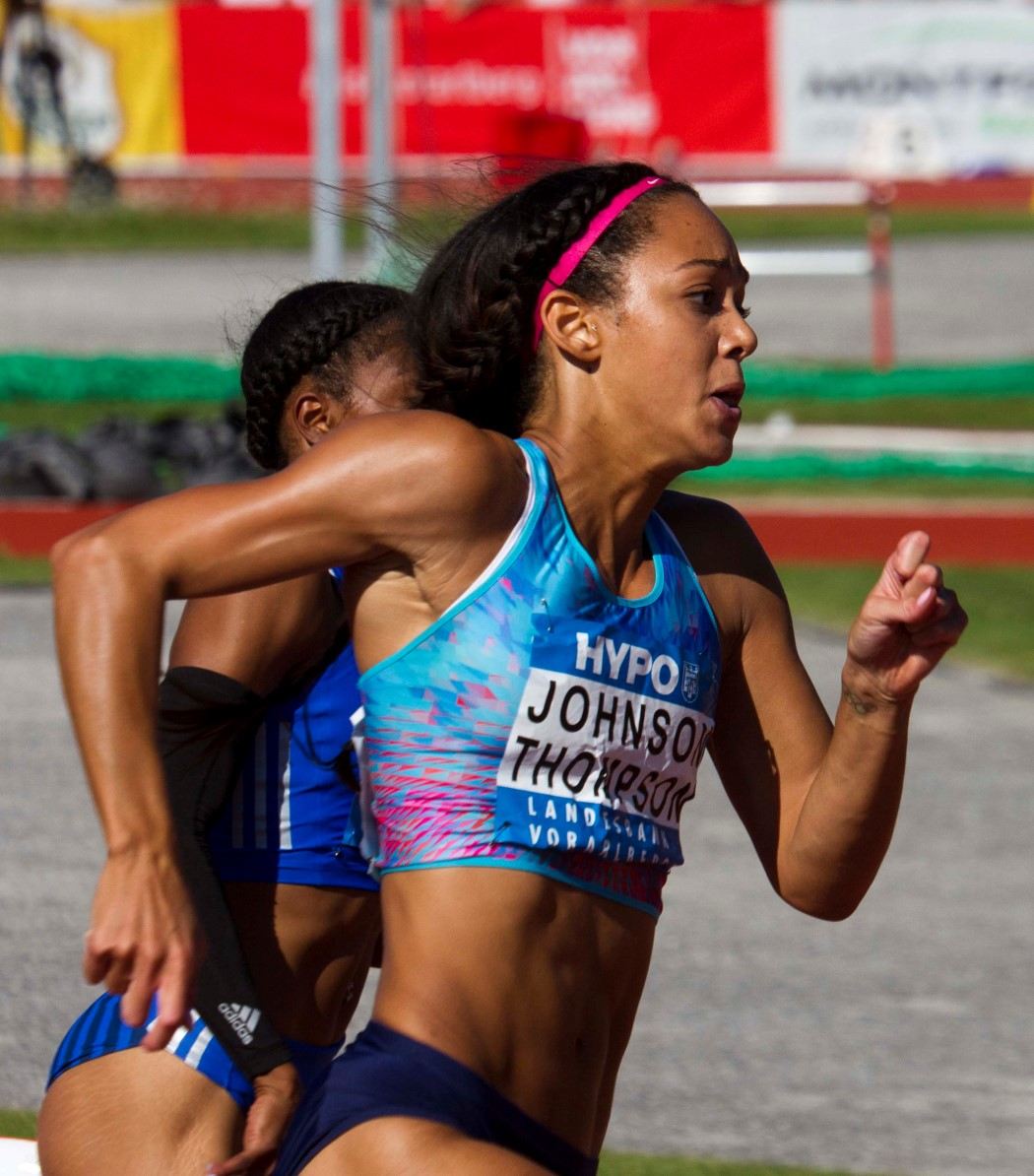 197 johnson-thompson 200m